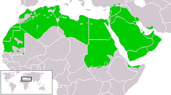 The settlement area of the Arabs in the Middle East and in North Africa.